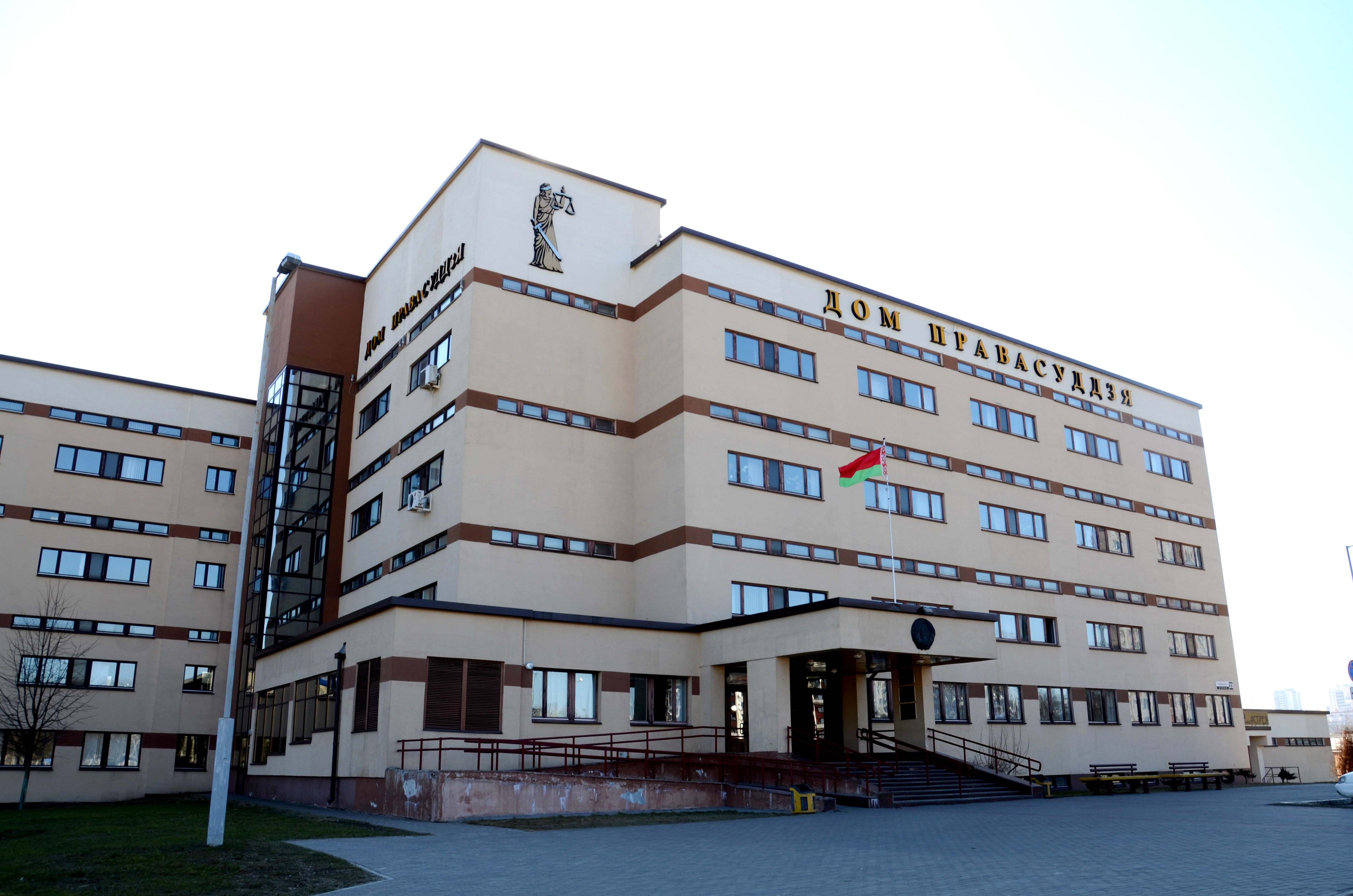 House of Justice in Minsk